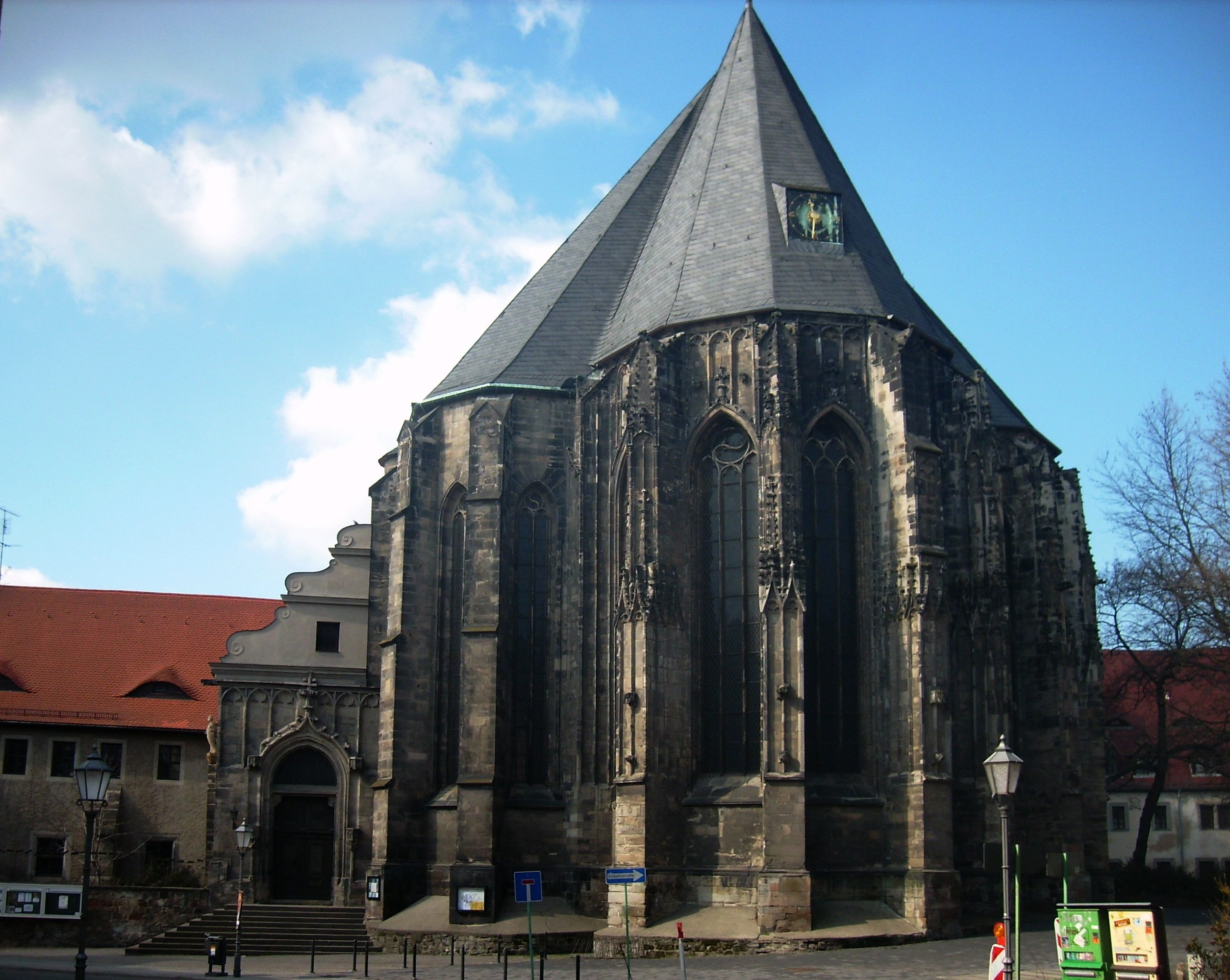 St. Maurice Church in Halle (Saale), Saxony-Anhalt